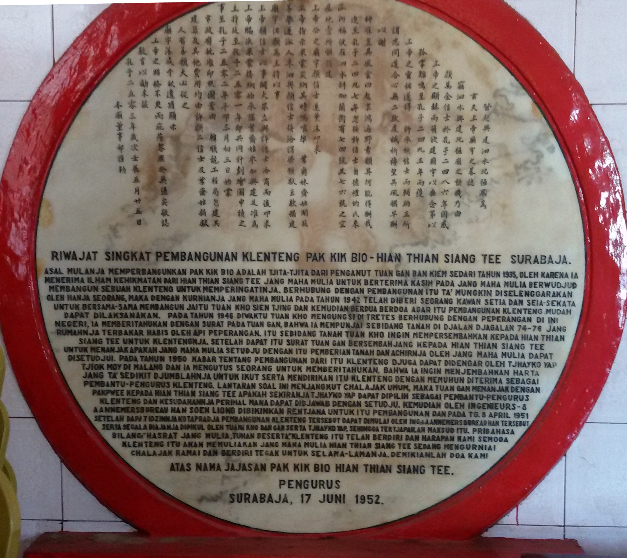 Historical stele at Pak Kik Bio Temple, Surabaya, Indonesia